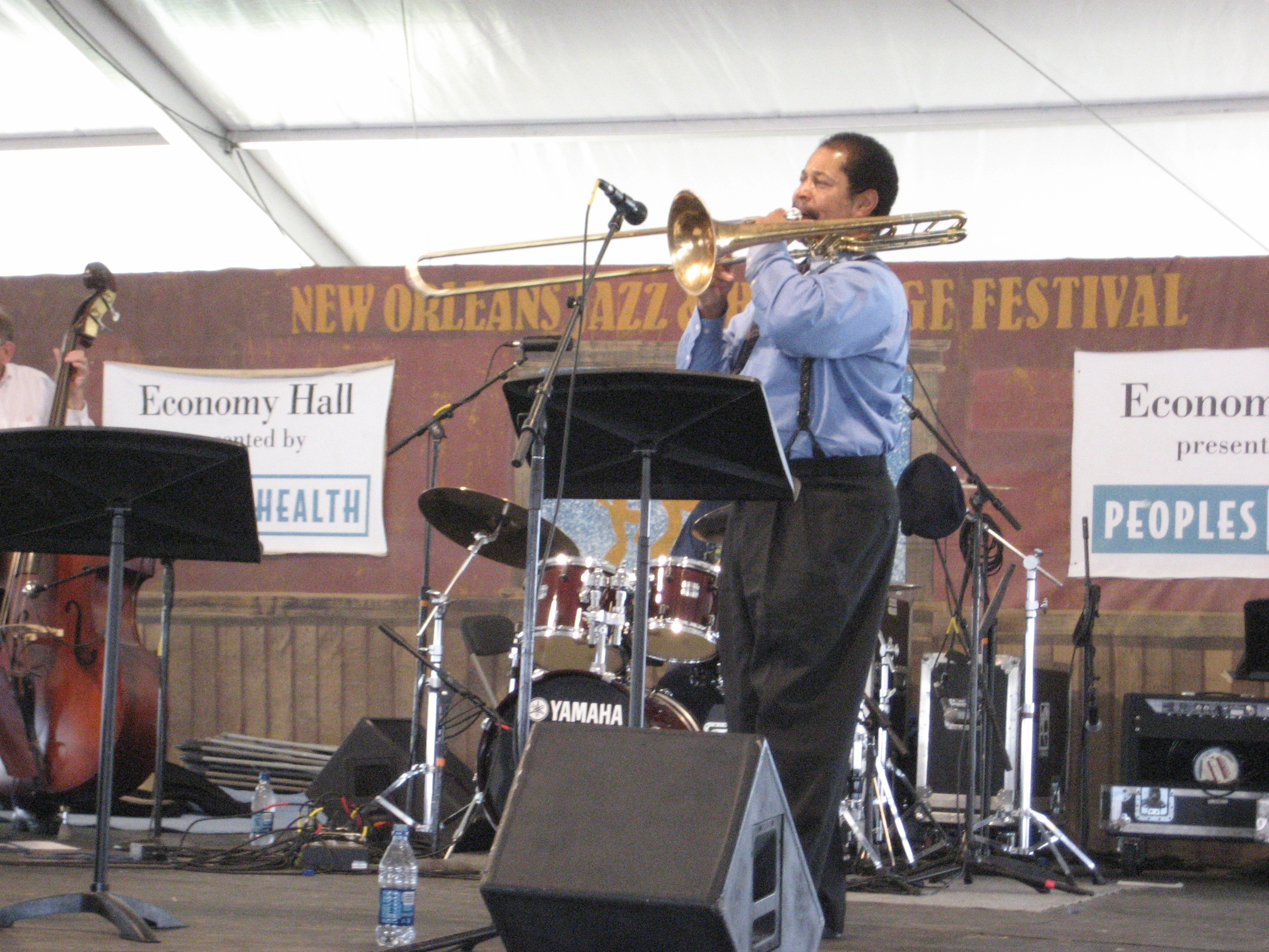 New Orleans Jazz & Heritage Festival: Trombonist Fred Lonzo in Economy Hall tent.